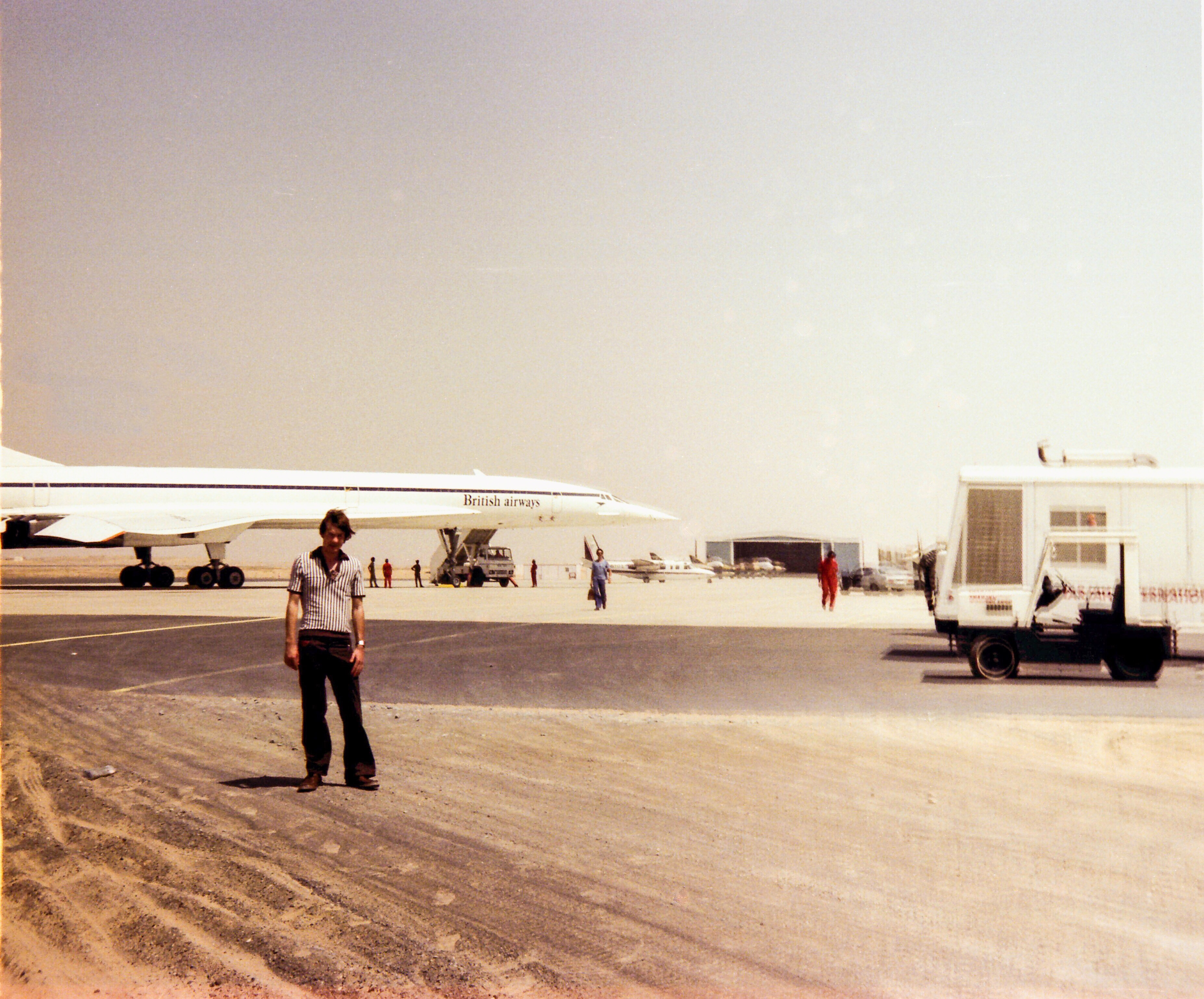 20th August 1977 ,Concorde 202 at Sharjah Airport.